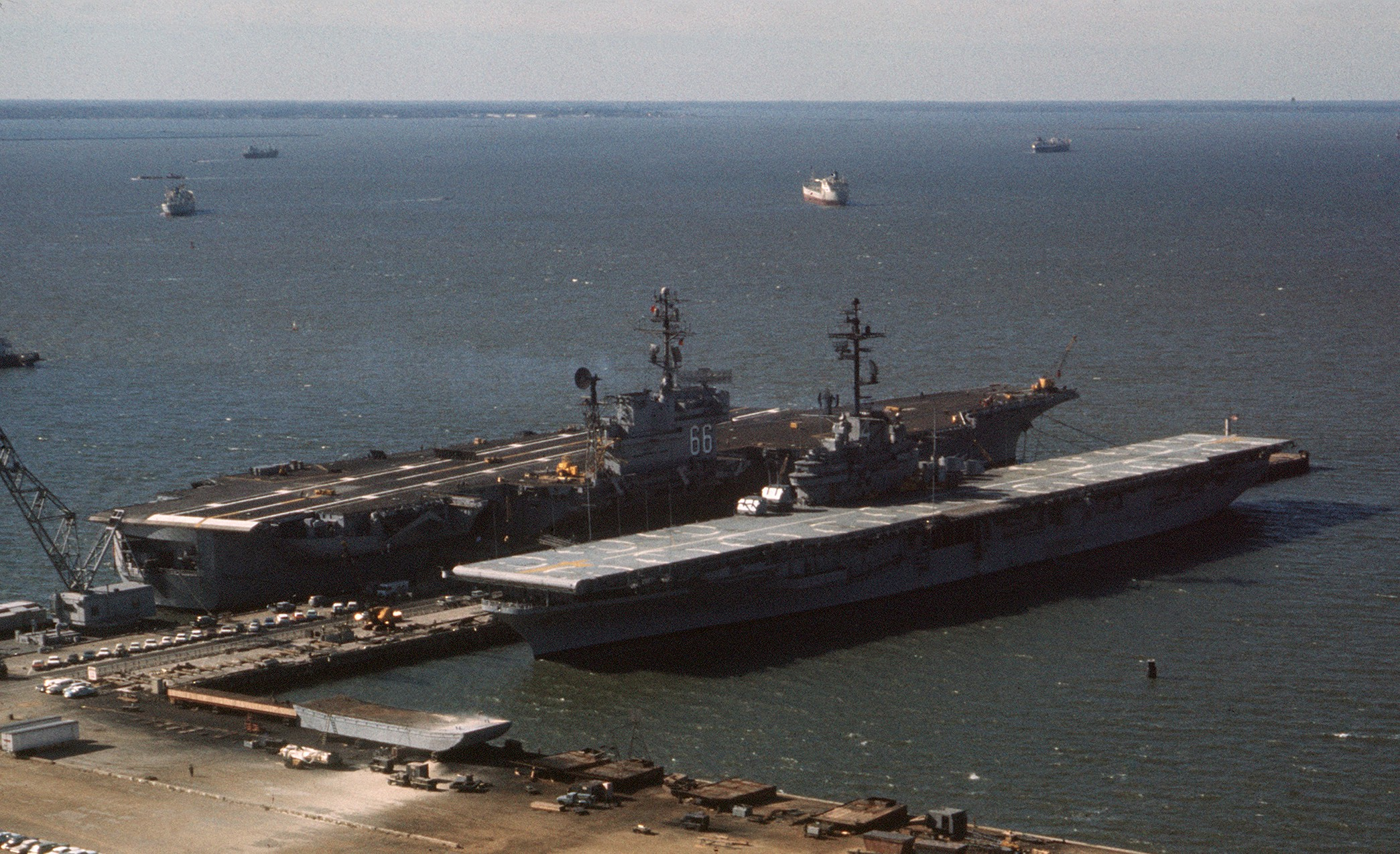 The U.S. Navy aircraft carrier USS America (CVA-66), left, moored next to the amphibious assault ship USS Boxer (LPH-4) at Pier No. 11 at the Naval Operating Base, Norfolk, Virginia (USA), on 1 October 1969. The America had just completed a Drydocking Selected Restricted Availability (DSRA) at the Norfolk Naval Shipyard (since 24 January 1969). The former Essex-class carrier Boxer was decommissioned on two months later on 1 December 1969.